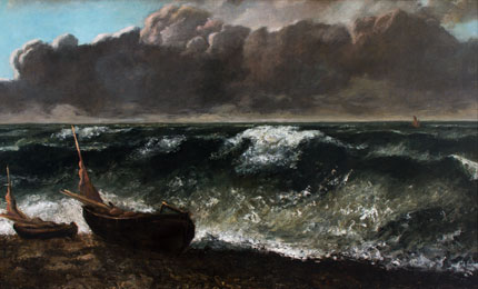 Gustave COURBET (1819-1877), The Wave, 1869, oil on canvas, 71.5 x 116.8 cm. © MuMa Le Havre / Charles Maslard